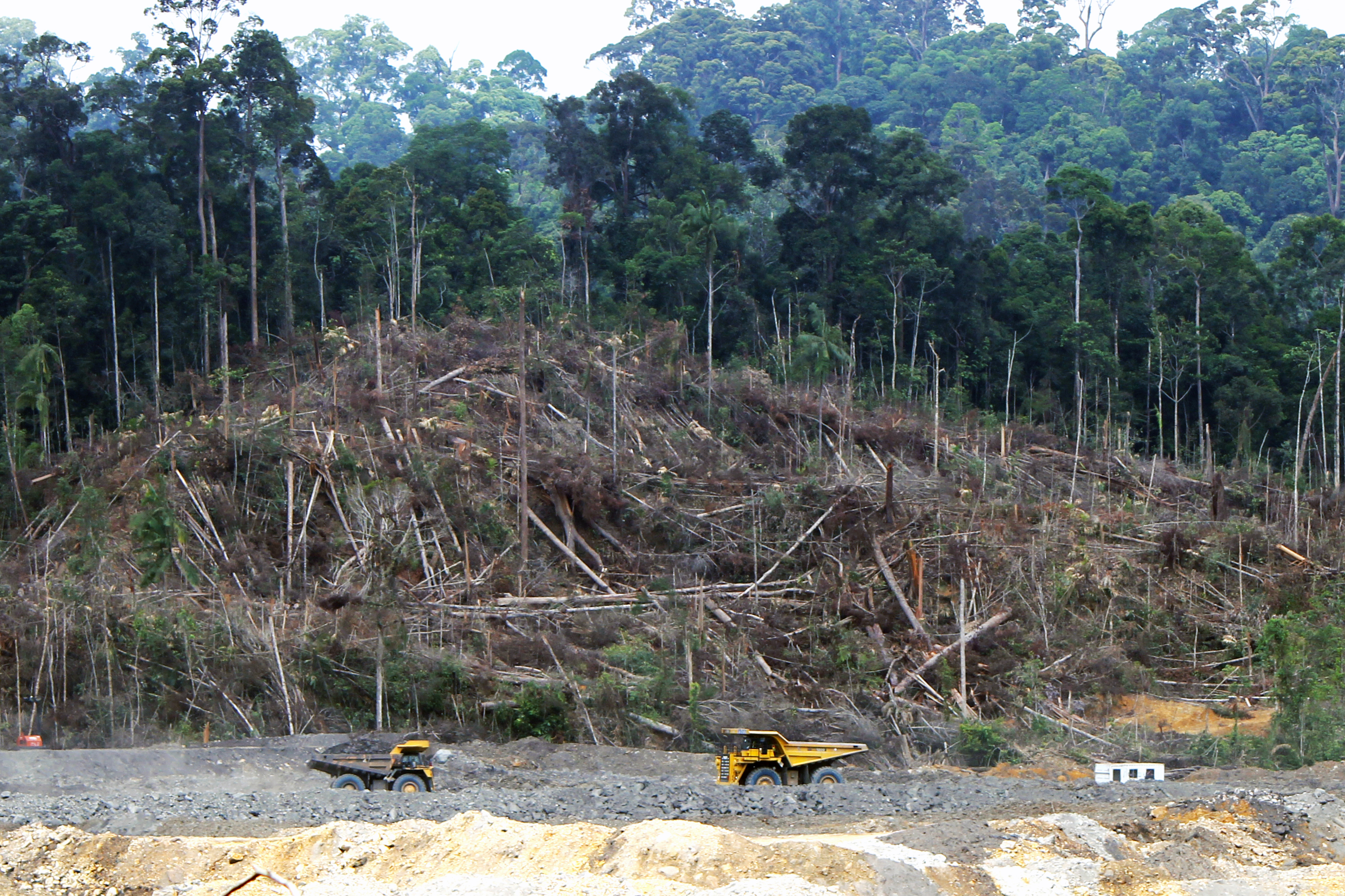 Coal mines like the Lumbung Mine are having a huge impact on local and indigenous populations in Indonesia, destroying the environment and polluting river water, normally used for cooking. Central Kalimantan, Borneo. June 8th 2013. The World Development Movement is campaigning for banks and other parts of the financial sector to be forced to disclose the carbon footprint of their investments.